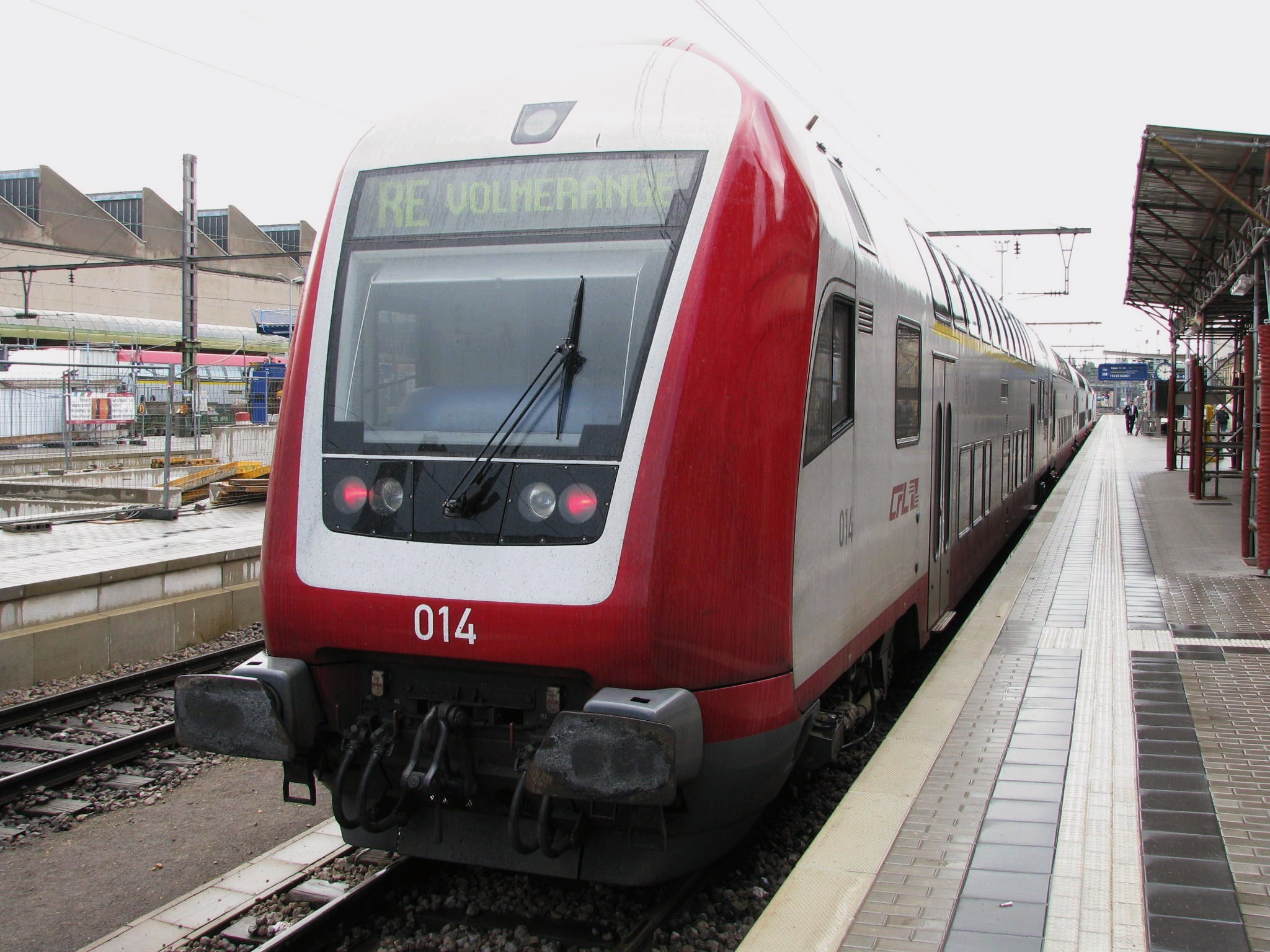 Push-pull train on Luxembourg railway station